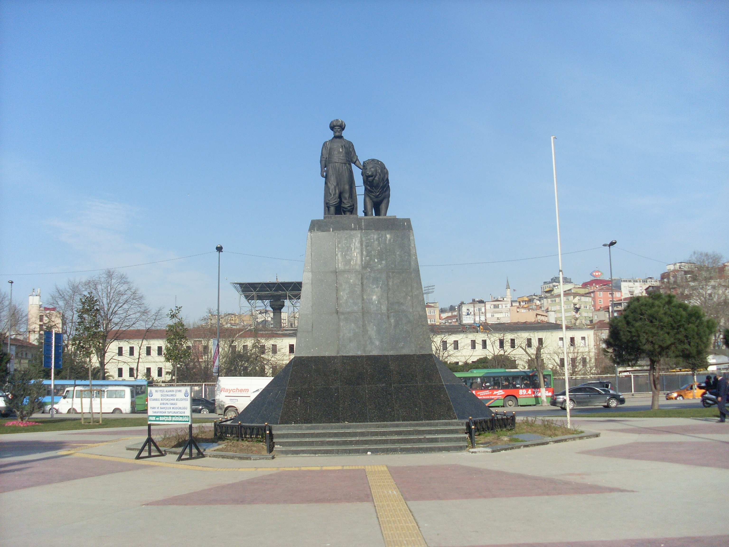 İstanbul - Kasımpaşa, Beyoğlu - Mart 2013 r5 (Memorial statue of Cezayirli Gazi Hasan Pasha in Kasımpaşa quarter, Beyoğlu district, Istanbul)